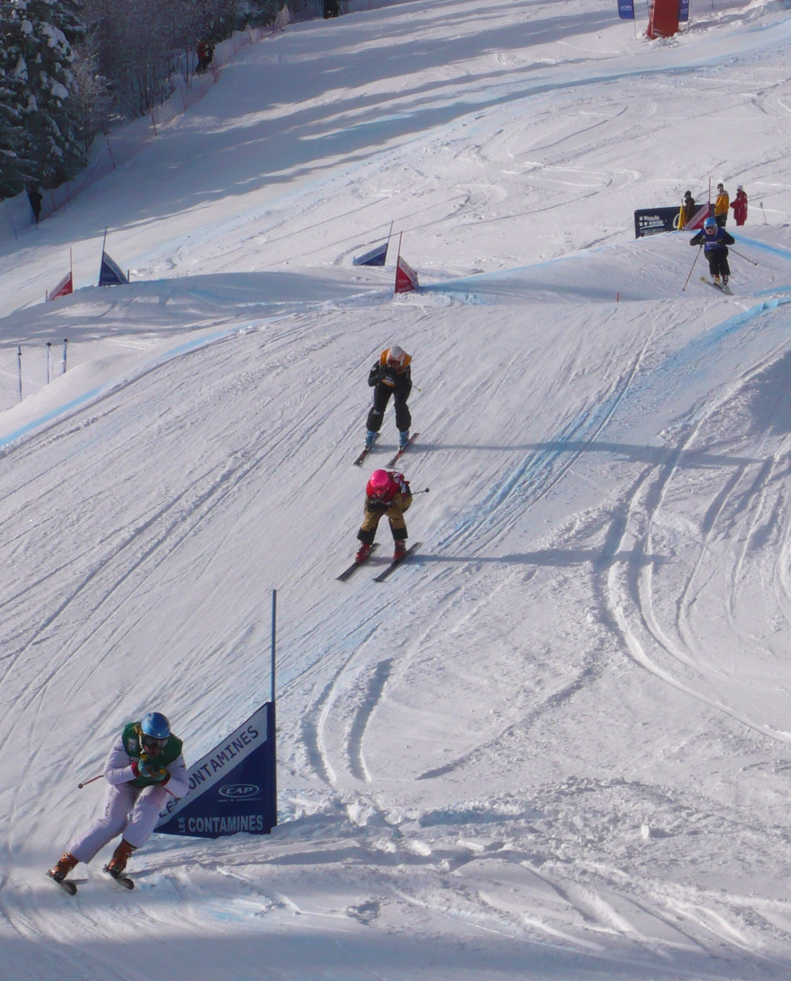 Ski Cross World Cup at Les Contamines-Montjoie, 1/4 final: Sophie Fjellvang-Soelling, Marion Josserand, Anna Woerner, Julie Brendengen Jensen.